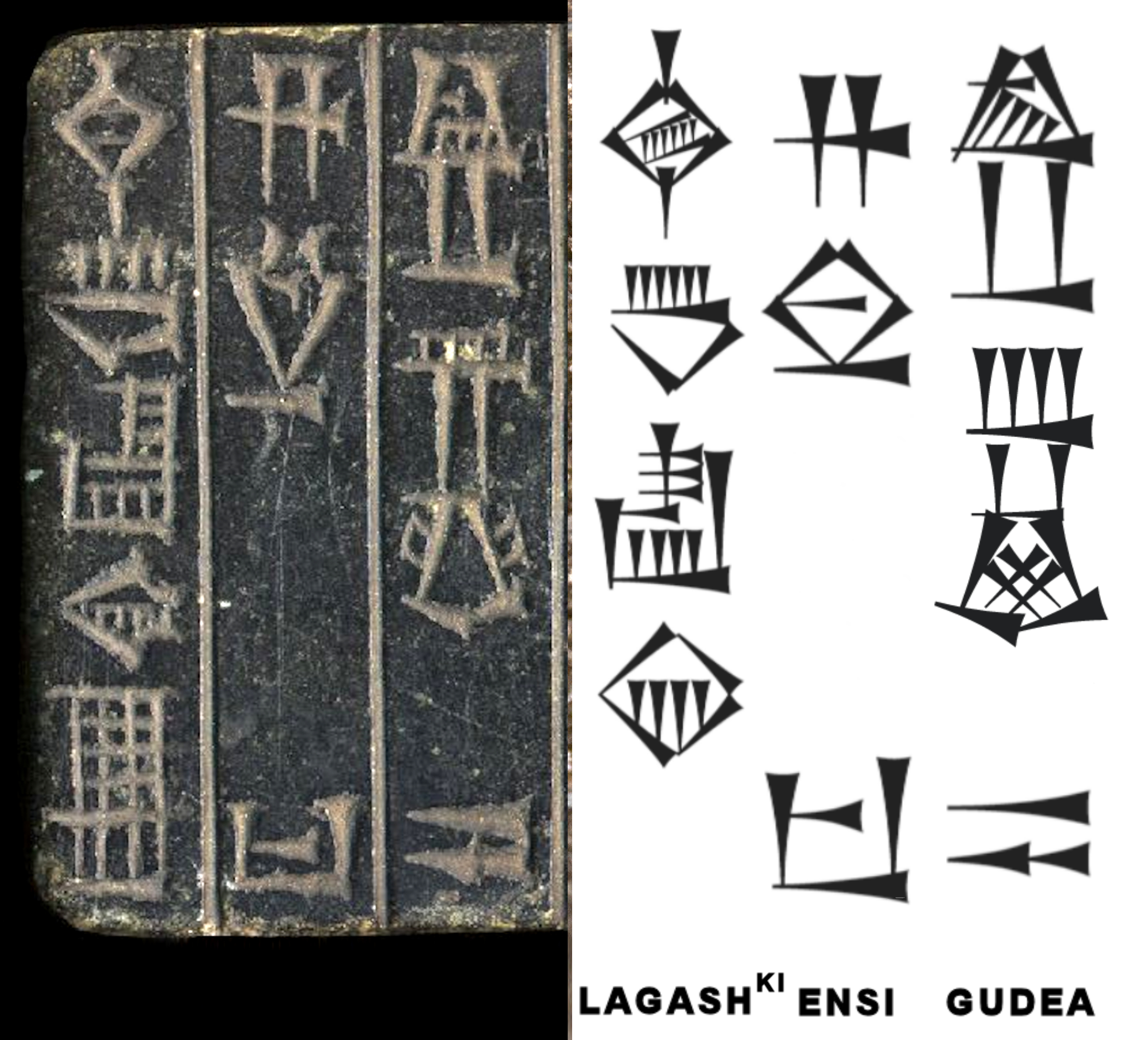 Gudea dedication tablet (name and title)